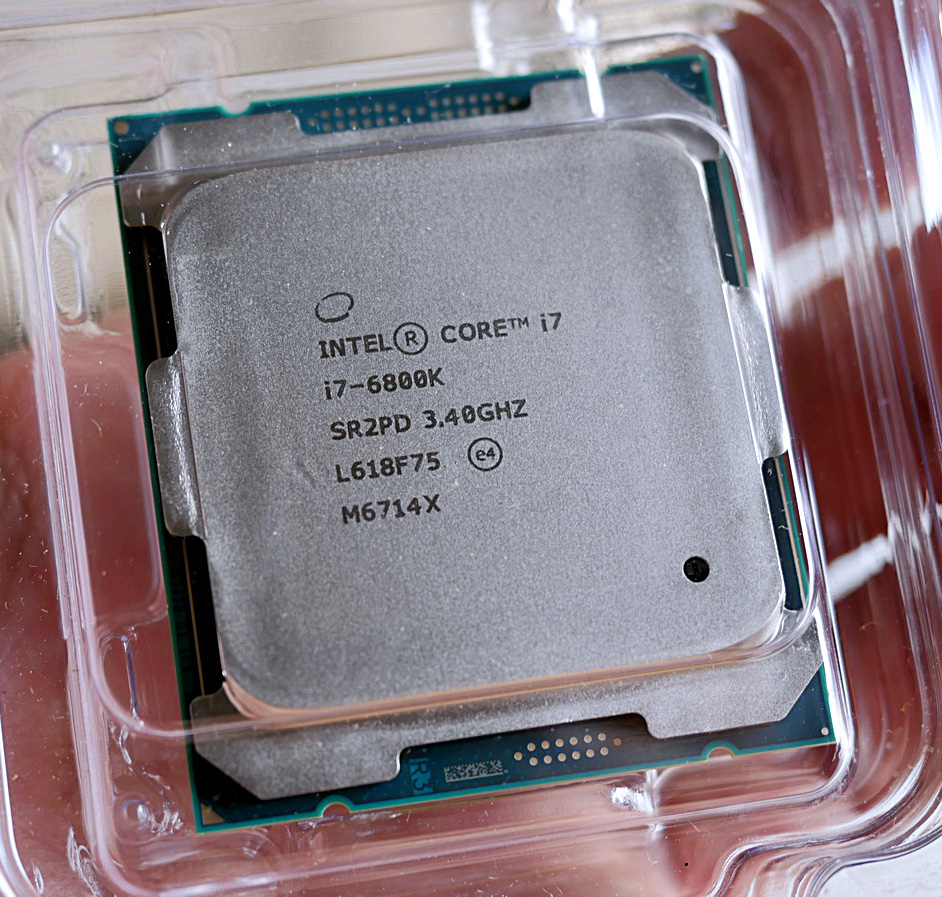 intels broadwell i7 6800k processor detailed photo